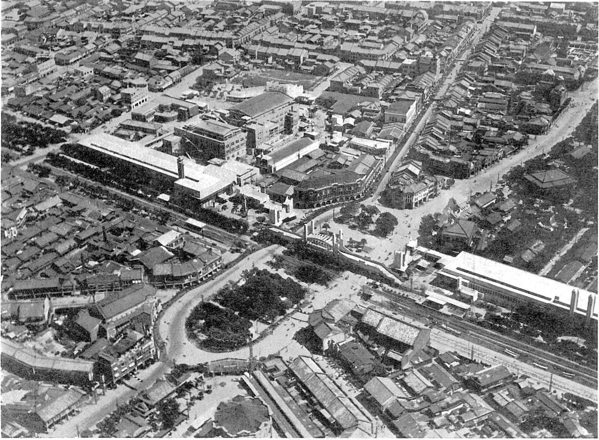 Taiwan Exposition, area 1, Taihoku, 1935